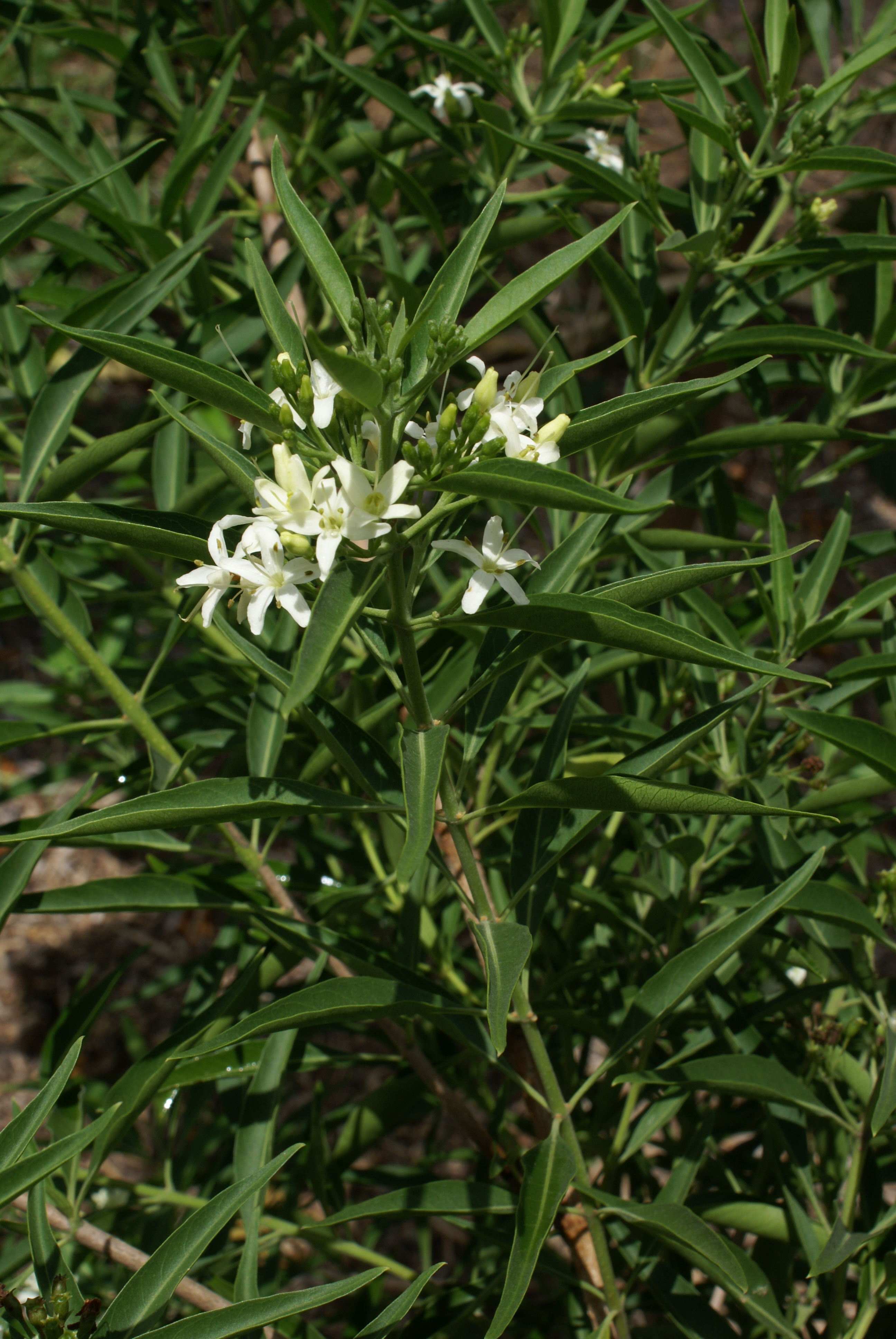 Blossom of Clerodendrum heterophyllum, a species of shrub endemic to Réunion island. Clerodendrum heterophyllum is a synonym of Volkameria heterophylla. Reference